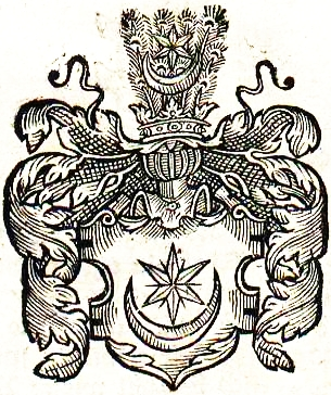 Coat of Arms Leliwa by Bartosz Paprocki, 1578